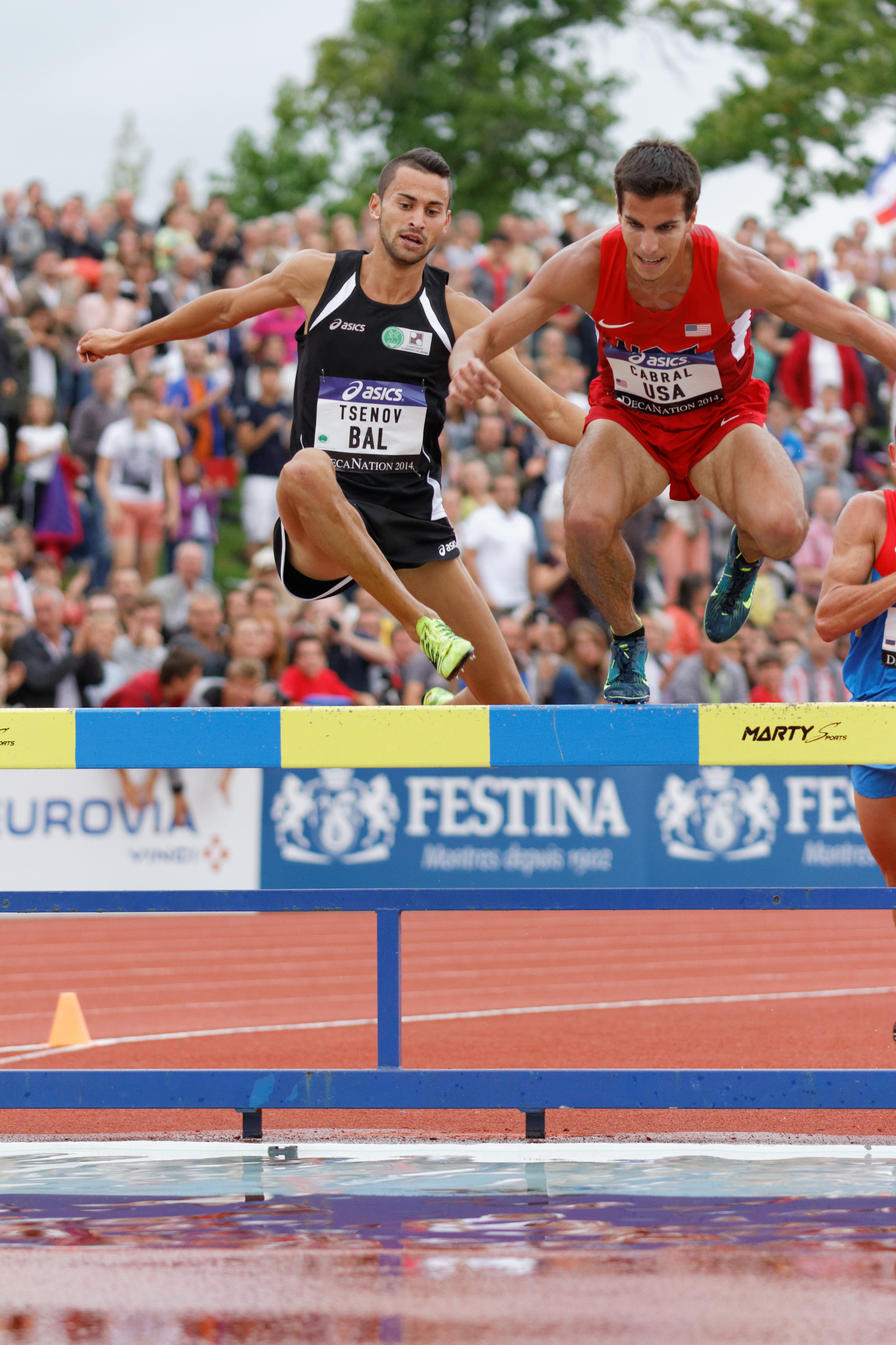 DécaNation 2014. 3000m steeplechase. Mitko Tsenov and Donn Cabral.